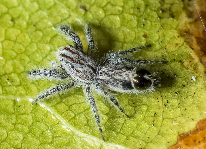 The large, raised, rounded, black sections on the rear of this spider are thought to mimic the eyes of a fly.